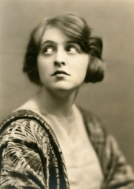 Photograph of Florence Eldridge, star of the 1922 Broadway production of The Cat and the Canary